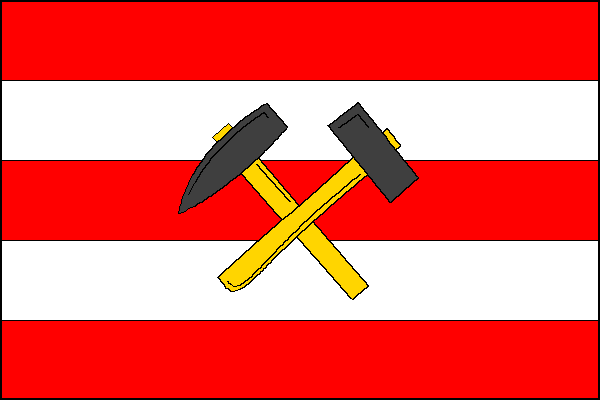 Municipal flag of Potůčky village, Karlovy Vary District, Czech Republic.